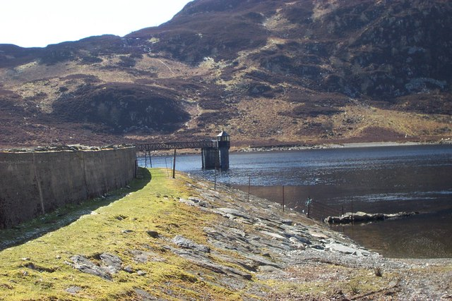 Llyn Cowlyd Reservoir Dam. This is the Dam of Llyn Cowlyd Reservoir at SH 73770 63340.